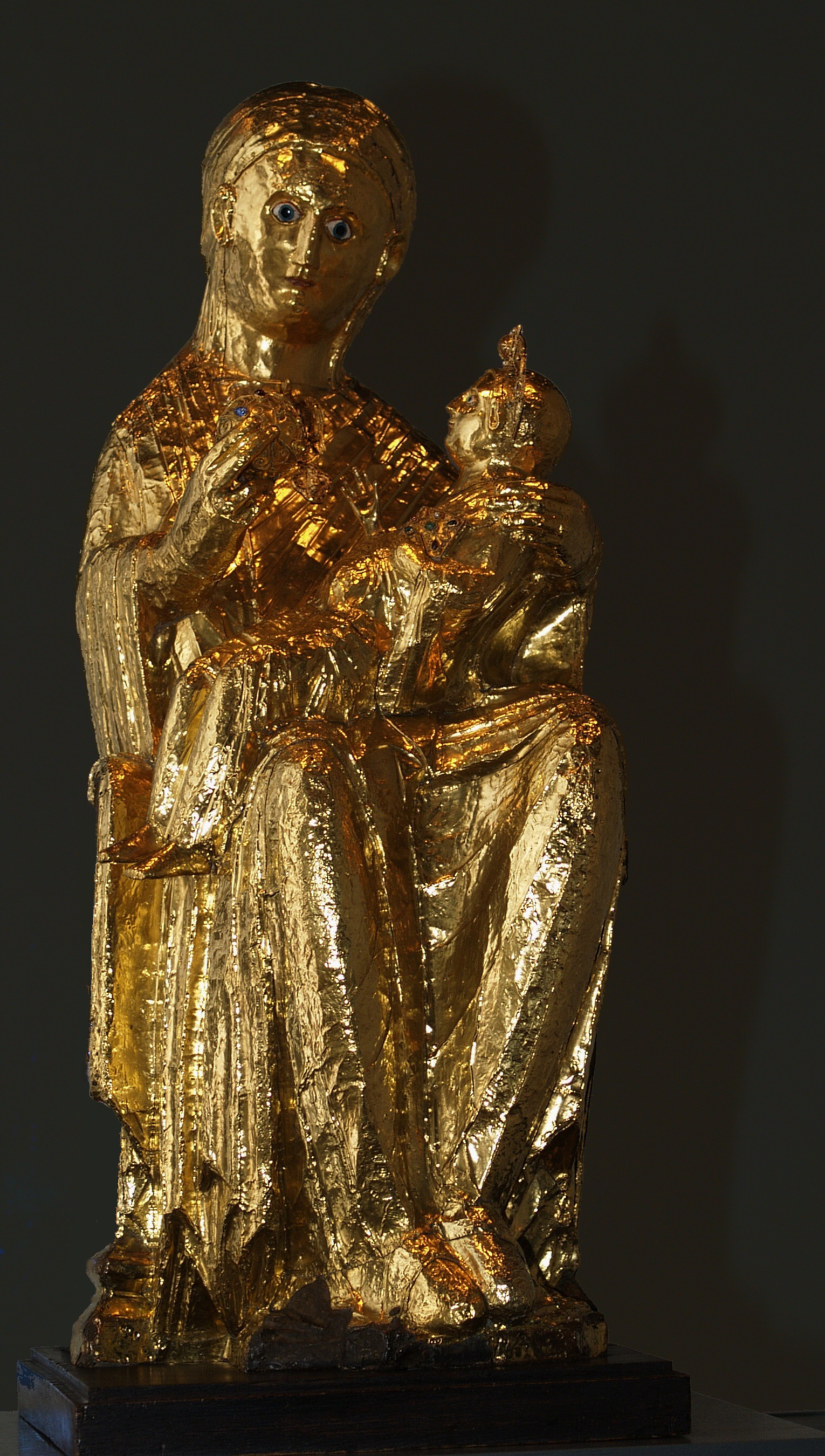 Golden Madonna of Essen, treasury of Essen Cathedral, North Rhine-Westphalia, Germany. Wood covered with gold leaf. Dated circa 980.